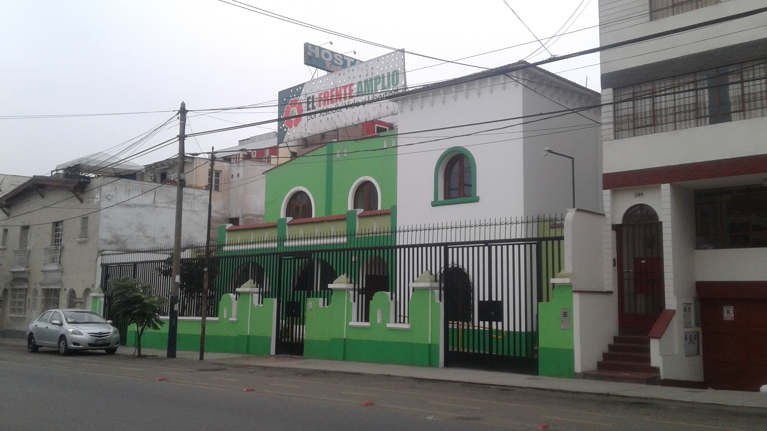 El Frente Amplio por Justicia, Vida y Libertad in Lince, Lima - Perú.